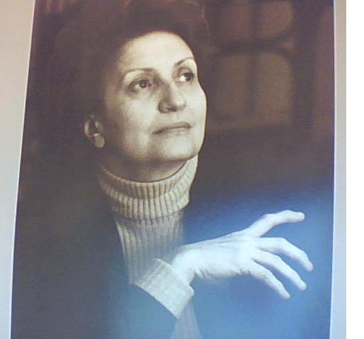 the famous Greek pianist Mrs Vasso Devetzi